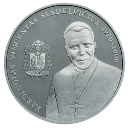 50 litas coin dedicated to Cardinal Vincentas Sladkevicius (1920–2000) Silver Ag 925 Quality proof Diameter 38.61 mm Weight 28.28 g The words on the edge of the coin: LET OUR LIFE BE BUILT ON GOODNESS AND HOPE Designed by Giedrius Paulauskis Mintage 2,000 pcs Issued 2005 The coin was minted at the state enterprise Lithuanian Mint.